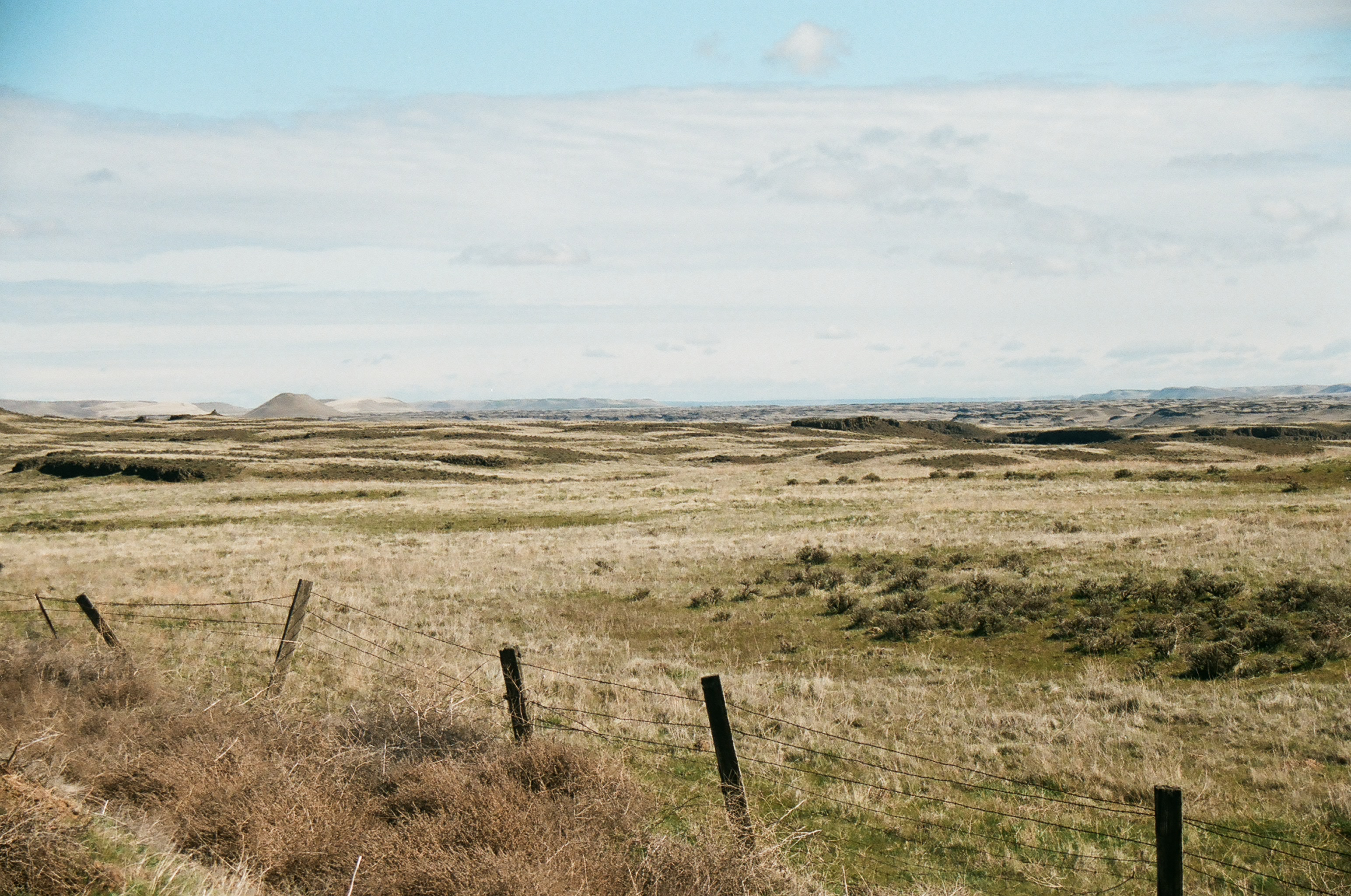 Channeled Scablands on the Columbia Plateau] - in Eastern Washington state. For use in Columbia Plateau Trail article.